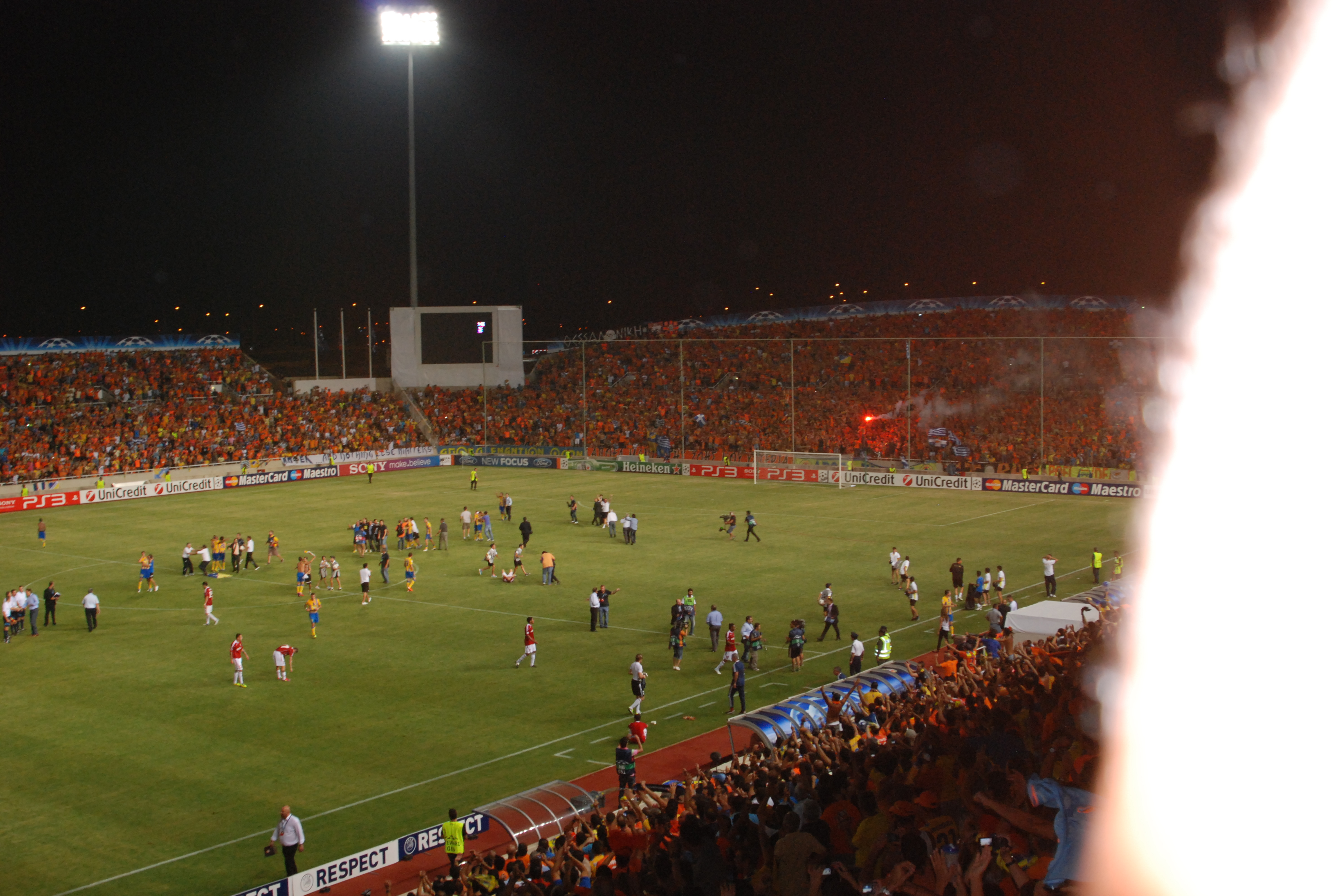 Champions League playoffs second leg. At GSP Stadium Nicosia 23/08/2011